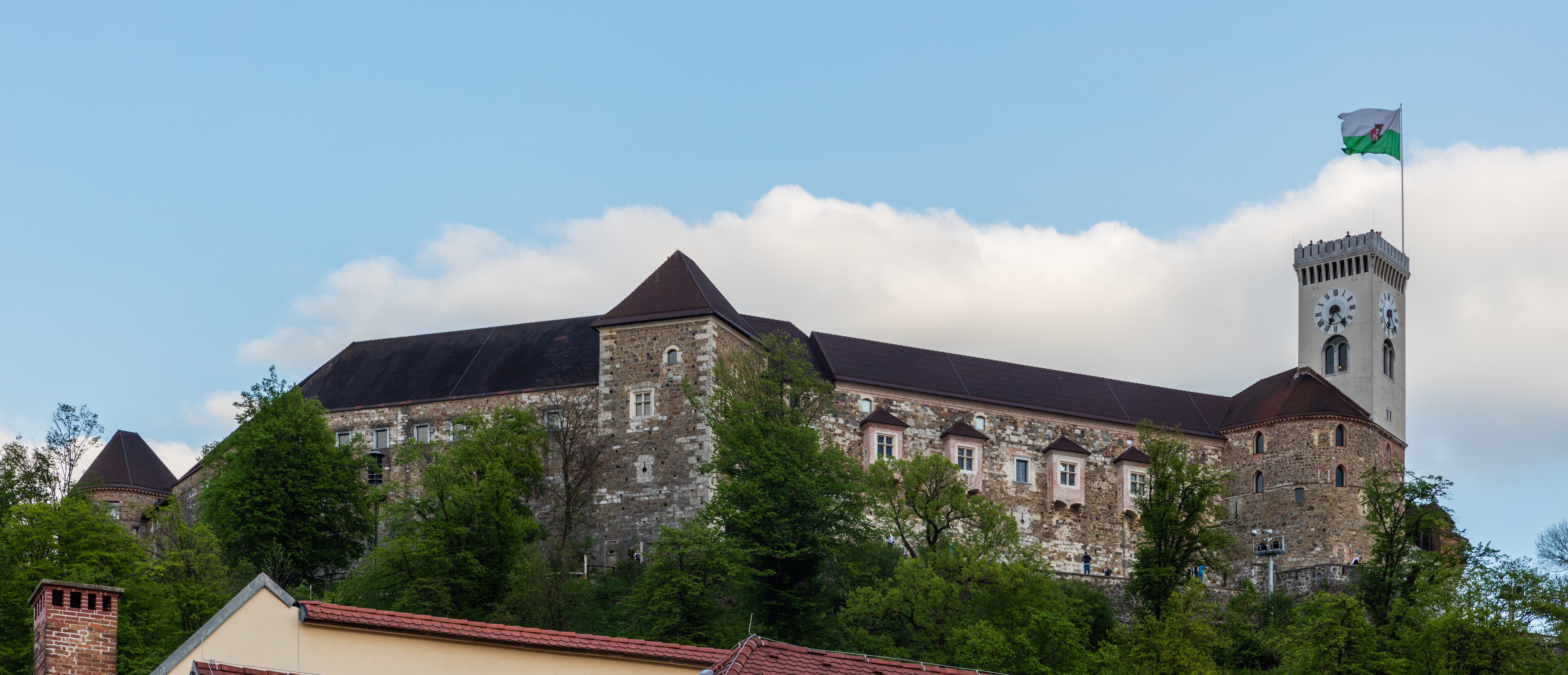 Ljubljana Castle, Ljubljana, Slovenia